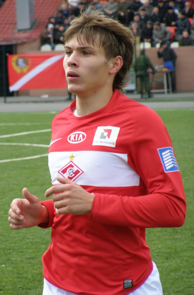 Sergei Parshivliuk in action for FC Spartak Moscow